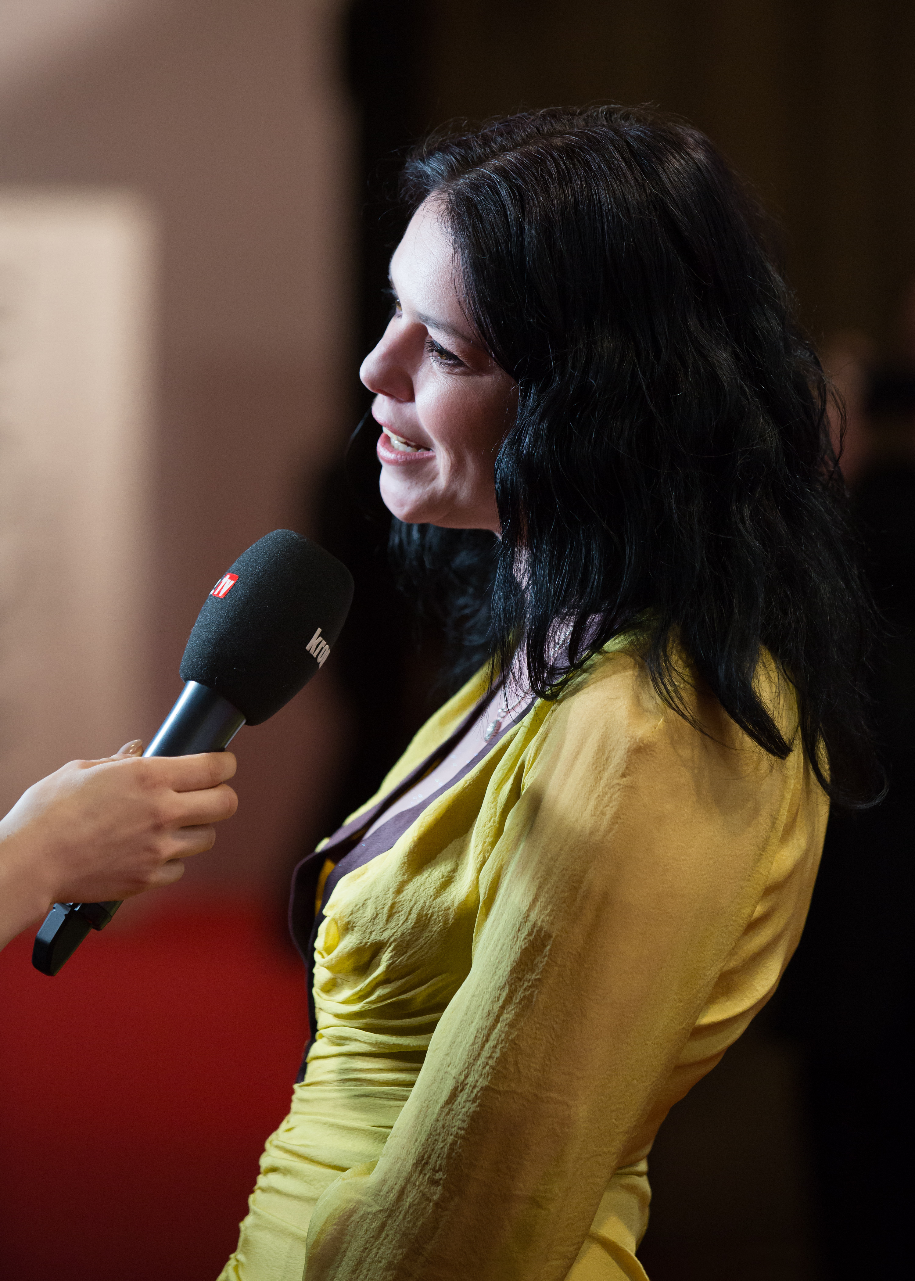 Carmen Kreuzer on the red carpet of the Filmball Vienna 2016 at Rathaus, Vienna, Austria.